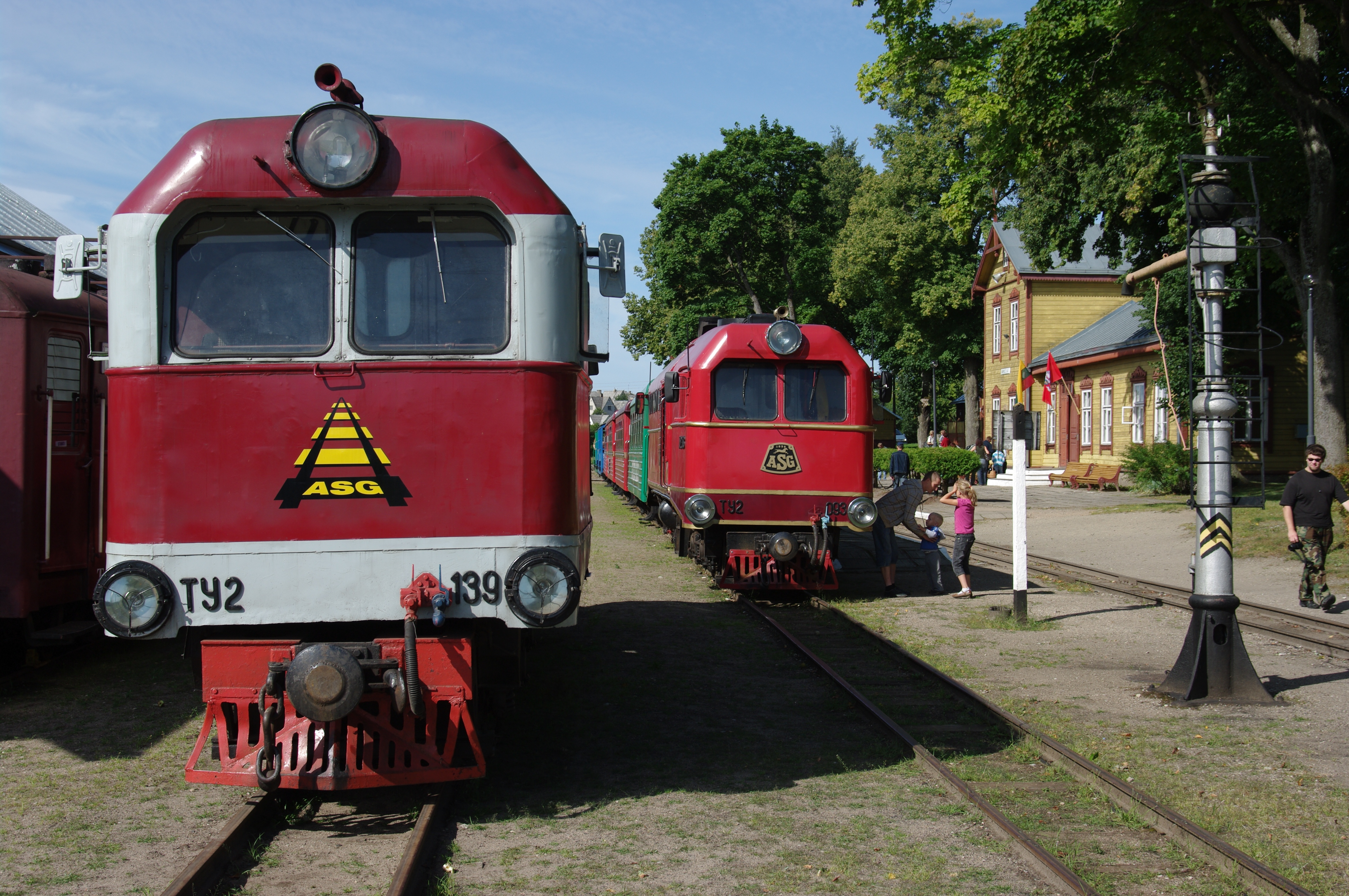 Narrow gauge railway - Anykščiai railway station